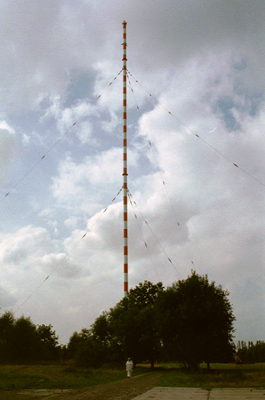 The Micro Wave Transmitter from Wilsdruff/Germany.